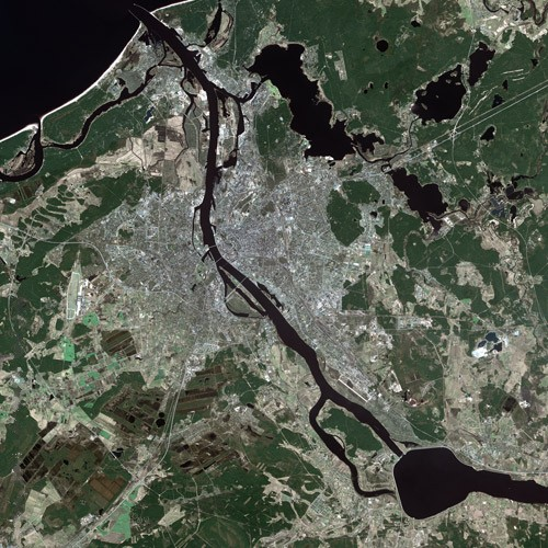 Riga by SPOT Satellite